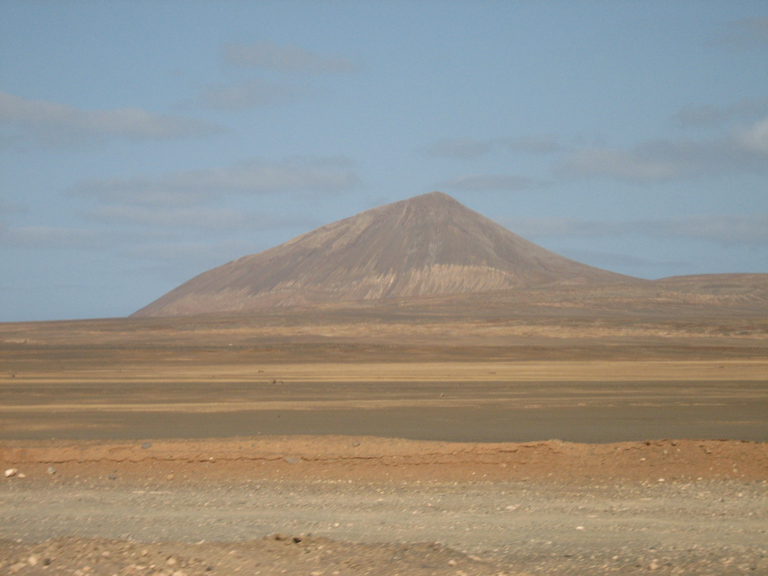 Monte Grande is the highest mountain of the cape verdean island of Sal